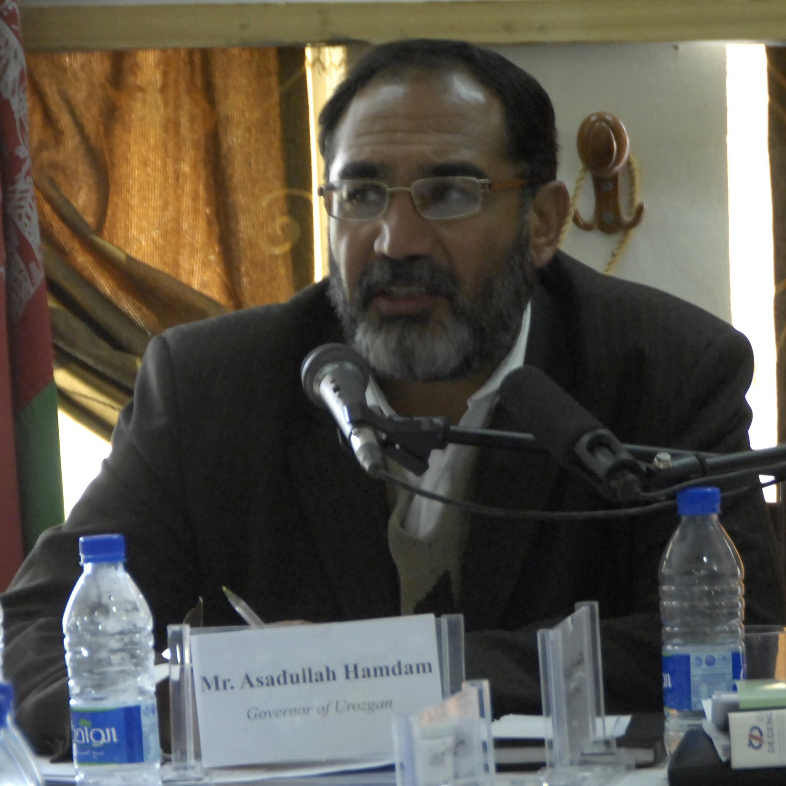 081115-N-6651N-001 KABUL, AFGHANISTAN - Governor Asadullah Hamdam hosts the second Regional Command South Governor's Conference at his palace in Tarin Kowt, Afghanistan, Nov. 15, 2008. The four RC South governors presented plans and recommendations on security, governance, development and social outreach to representatives from Kabul. U.S. Navy Photo by Mass Communication Specialist Petty Officer 1st Class Monica R. Nelson